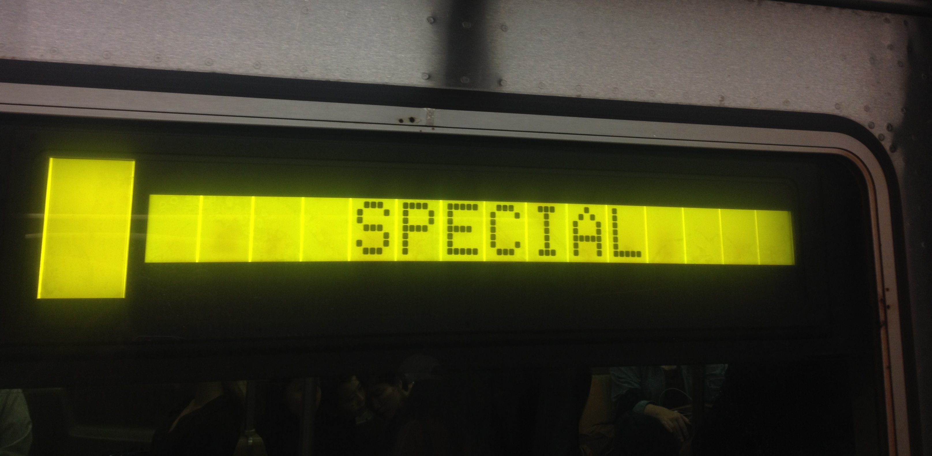 R46 train in New York City denoted as "special"